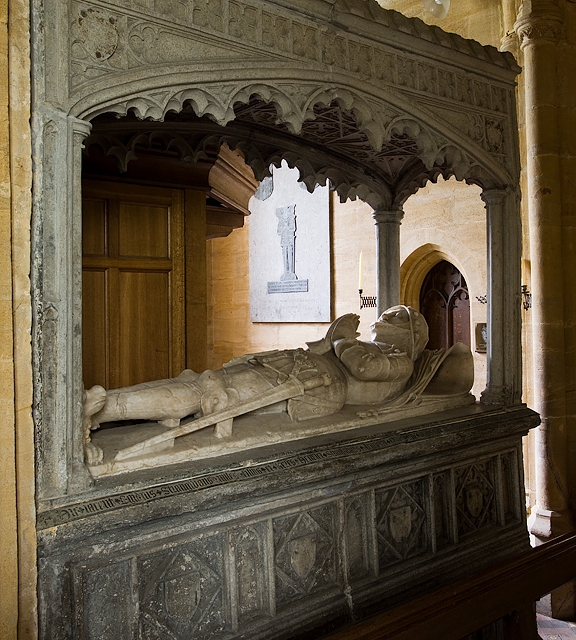 Effigy of Sir Giles Strangways (1486-1546), Melbury Sampford Church (Chapel of St Mary), Dorset. Effigy in Alabaster, canopy in Purbeck marble. Sir Henry Strangways (c.1465-1504) (father of Sir Giles Strangways (1486-1546)) acquired the manor by his second marriage to the widow of William Brouning/Browning of Melbury. Giles Strangways’s grandfather was the first of the family to settle in Dorset, having been persuaded to leave Yorkshire by Thomas Grey, 1st Marquess of Dorset. ( The Strangways of Yorkshire were seated at Castle Harlsey. Latin inscription on a brass fillet on the top edge of the base: Hic jacent Egidius Strangewaies miles filius et heres Henrici Strangewaies armigeri et Dorothae uxoris suae filiae Johannis Arundel militis. Nec non Johanna uxor predict(i) Egid(ii) et filia Johannis Mordant militis. Egidius obiit die 11 Decembris 1547 cuius a(n)i(ma)e p(ro)pici(e)tur D(omin)o Amen. Which may be translated as: ("Here lie Giles Strangeways, Knight, the son and heir of Henry Strangeways, Esquire, and of Dorothy his wife, the daughter of John Arundel, Knight; and also Johanna, the wife of the foresaid Giles, and daughter of John Mordaunt, Knight. Giles died on the 11th of December 1547. Of the soul of whom may it be looked upon with favour by God Amen"). (Source: Dugdale, James, The New British Traveller: Or, Modern Panorama of England and Wales, Volume 2, p.235[1]) "